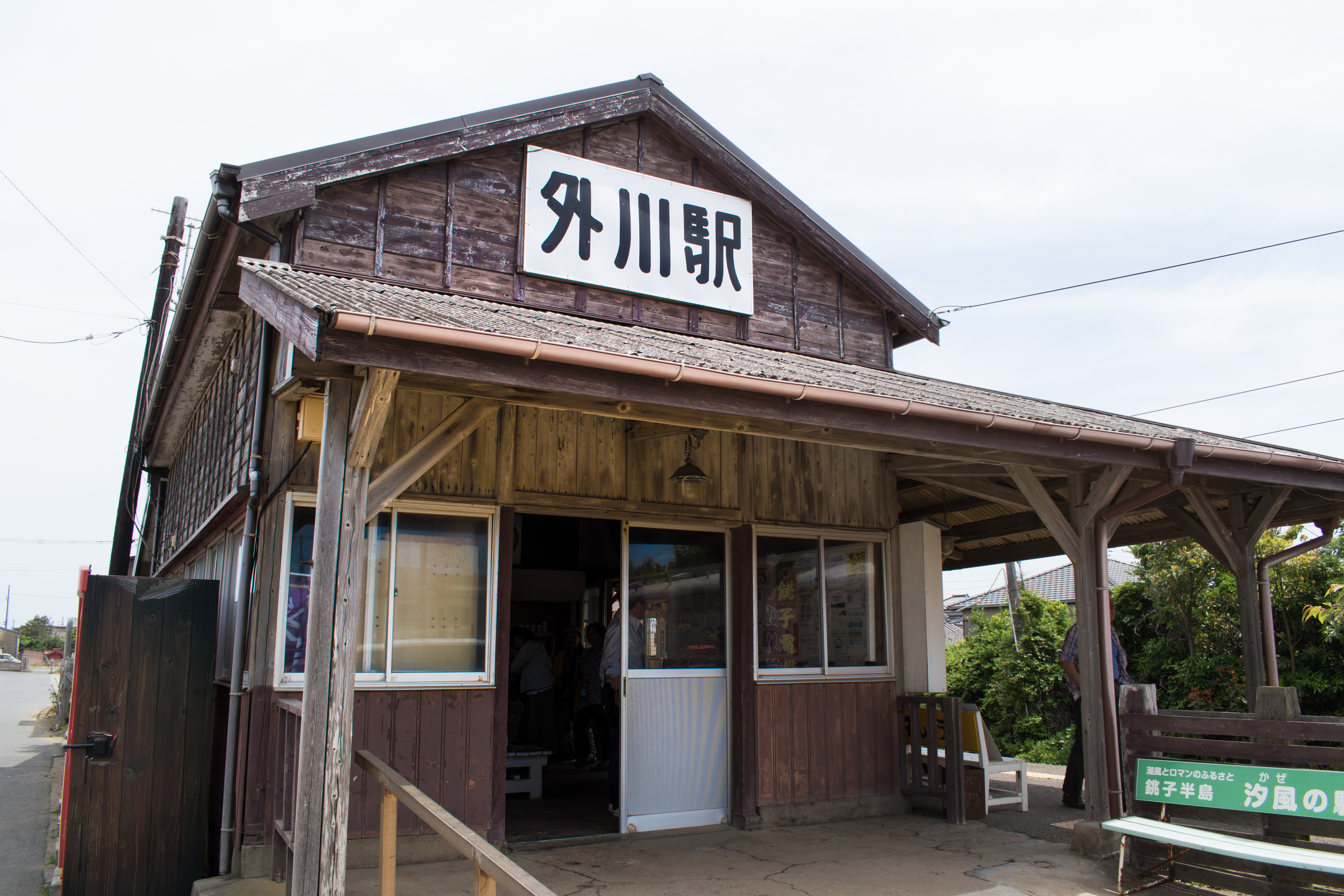 Exterior of the Chōshi Electric Railway Line Tokawa Station in Chōshi City, Japan.